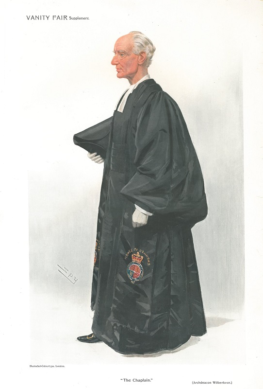 Men of the Day No.1153: Caricature of Archdeacon Wilberforce. Chaplain to the House of Commons. Caption reads: "The Chaplain"